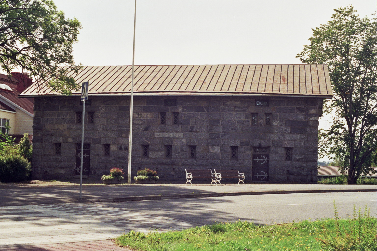 The museum of Huittinen, Finland. It contains, among others, a section dedicated to Risto Ryti, one of the presidents of Finland, born in Huittinen, 1889. The stone building has been constructed in the early 1900s.